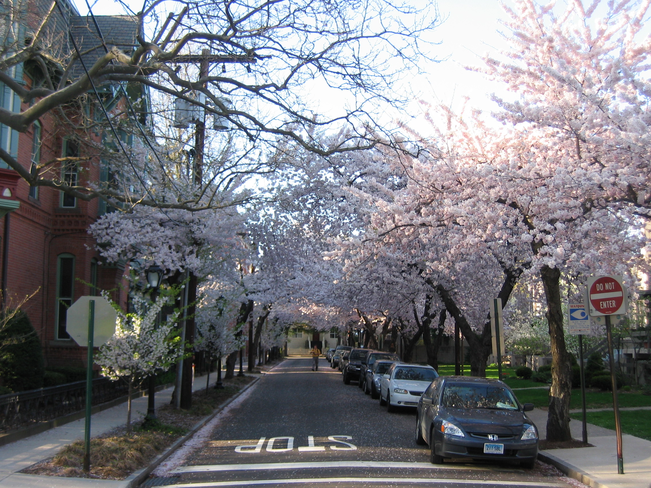 Cherry trees — street trees near Wooster Square, New Haven, Connecticut.